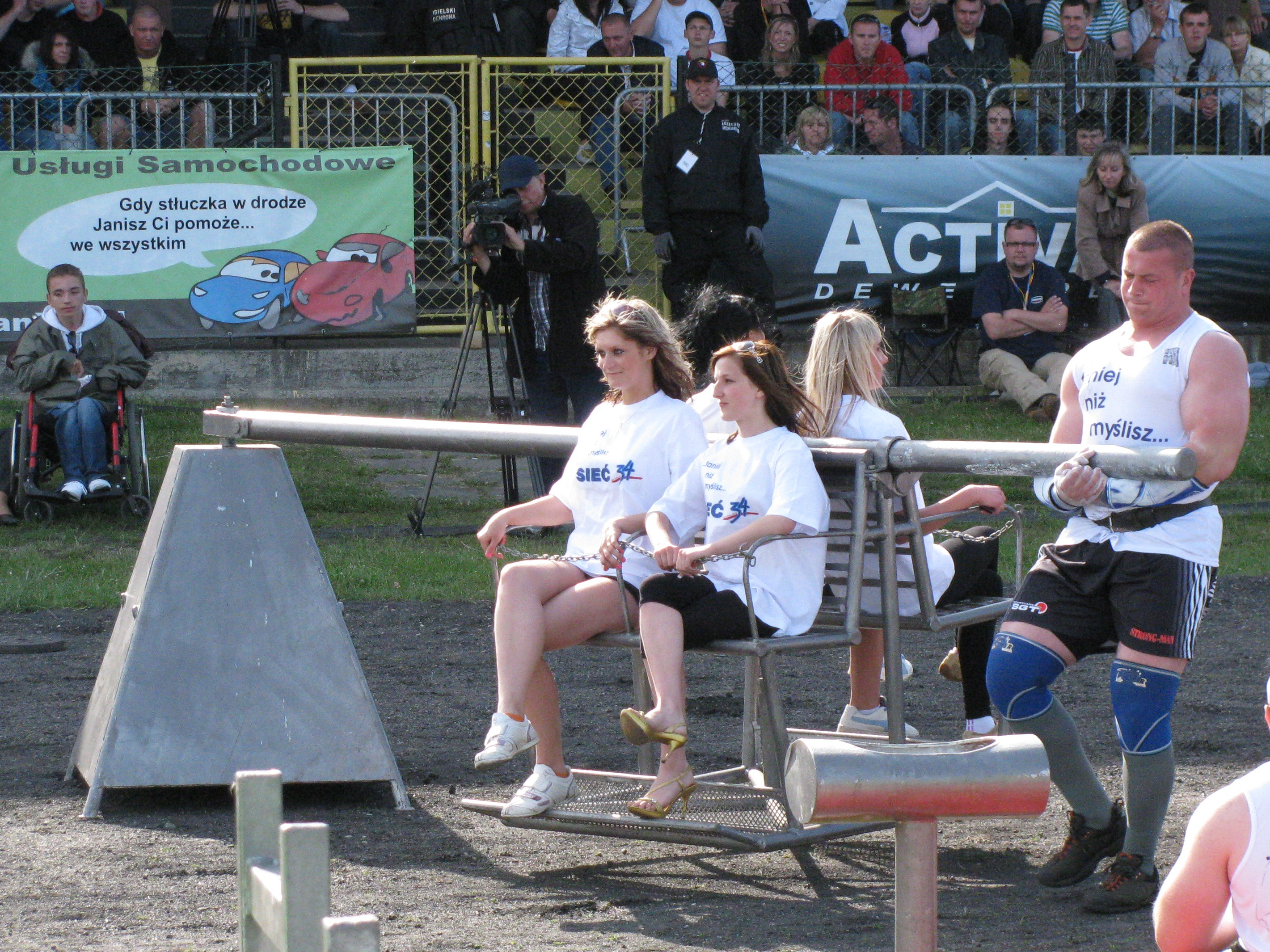 Strongmen event: Conan's Wheel, Conan's Circle.